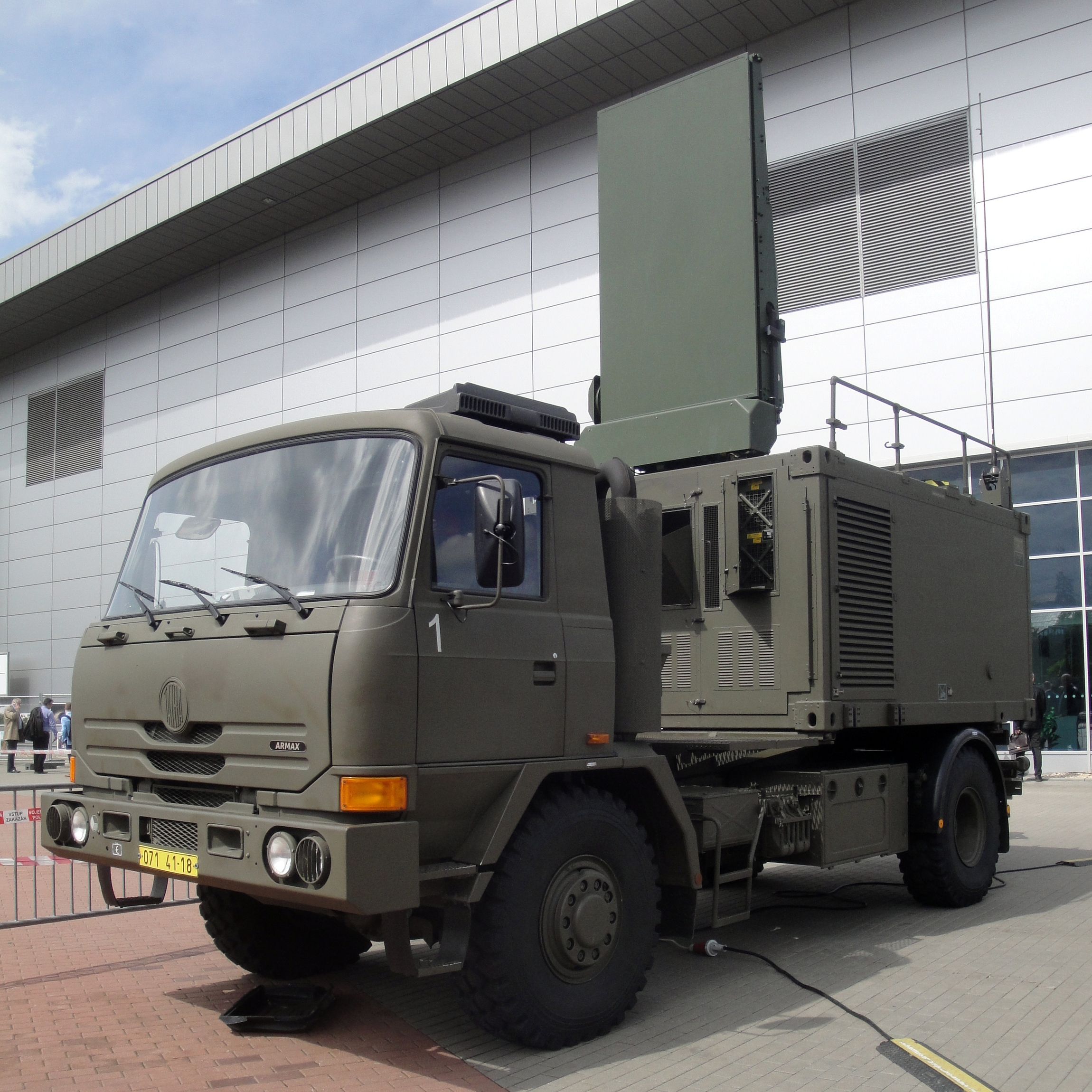 ARTHUR (Artillery Hunting Radar), Tatra, IDET/PYROS/ISET 2019, Brno